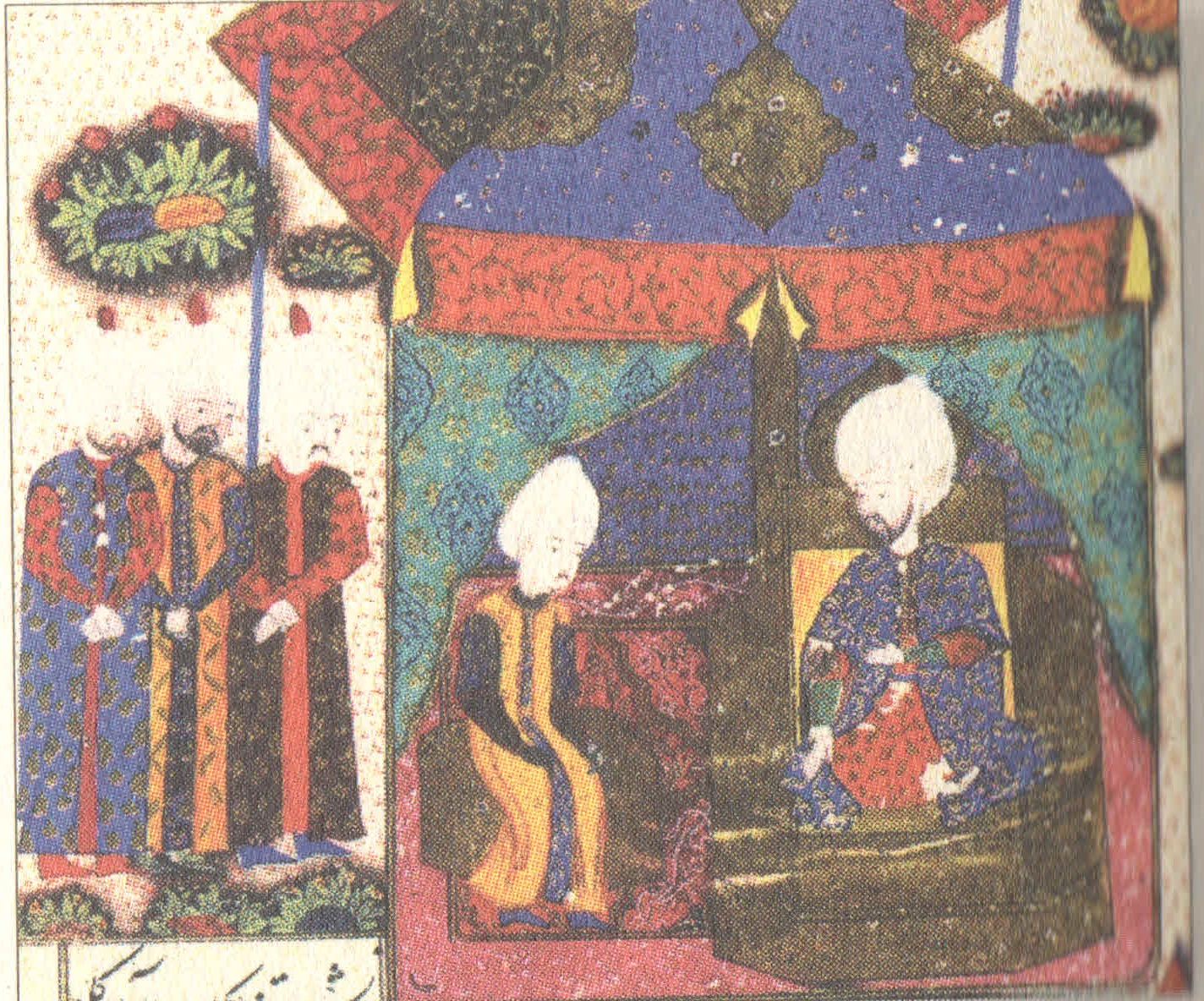 Sultan Suleiman the Magnicifient (d. 1566) and he son Bayezid (d. 1561) a miniature. This work is in the public domain in Turkey because it has been expropriated as national heritage or its copyright has expired. Article 27 of the Turkish copyright law states: The protection period continues during the lifetime of the owner of the work and for 70 years after his death. For works published after the death of their owner, the protection period is 70 years after the date of death. In cases stated in the first paragraph of article 12, the protection period is 70 years from the date that the work is published, unless the owner of the work discloses his name before the expiry of this period. In case the first owner of the work is a legal person, the protection period is 70 years from the date that the work is published.